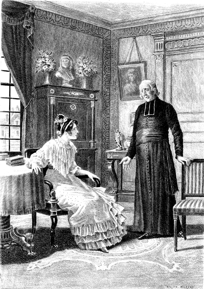 Illustration of Honoré de Balzac's The Woman of Thirty (1831): The Cure of Saint-Ange calls upon Julie.